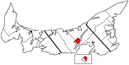 Adapted from existing Prince Edward Island election results maps to depict a specific electoral district.